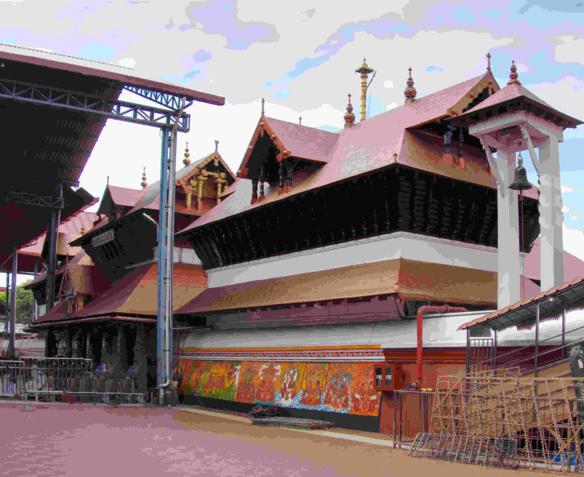 Guruvayoor